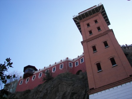 Asansör in Izmir